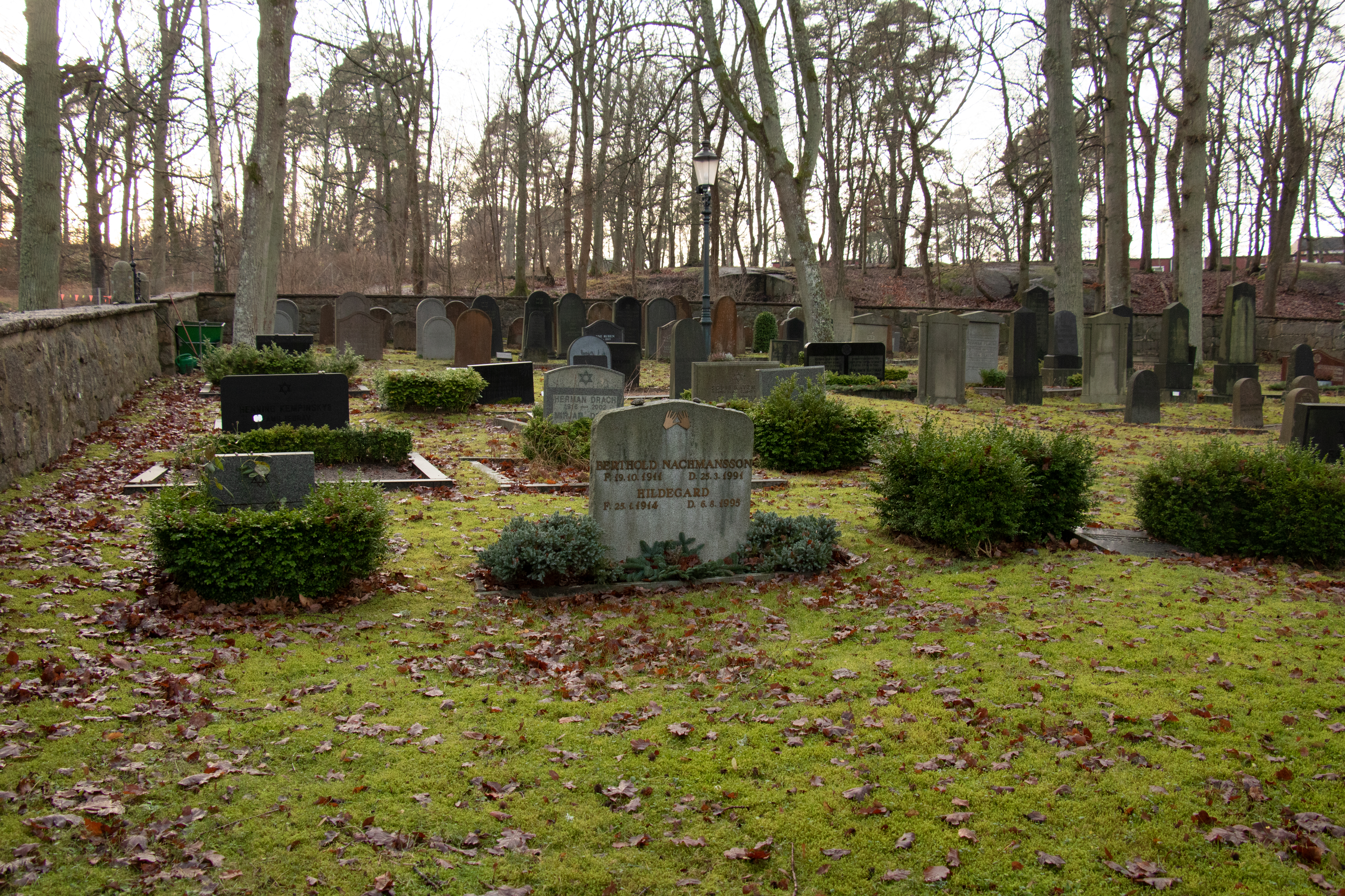 A Jewish cemetery in the Swedish town Karlskrona.